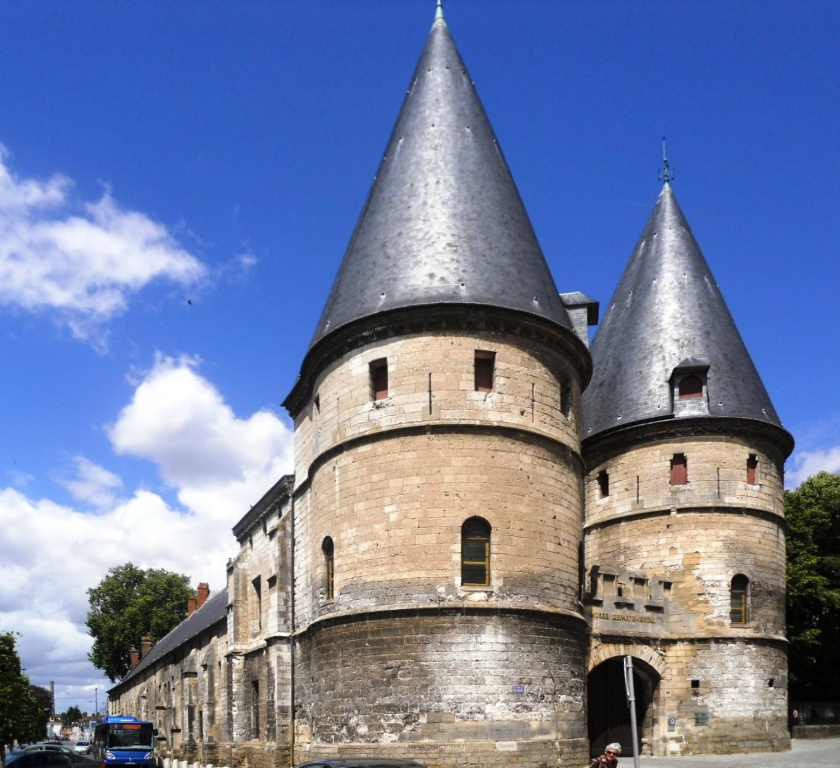 Beauvais, Bishop´s palace